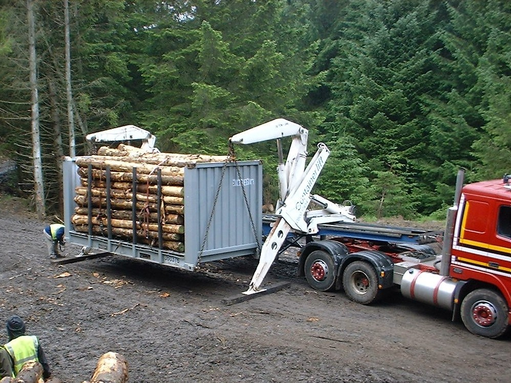 A Sidelifter picks up a container full of logs at a work site